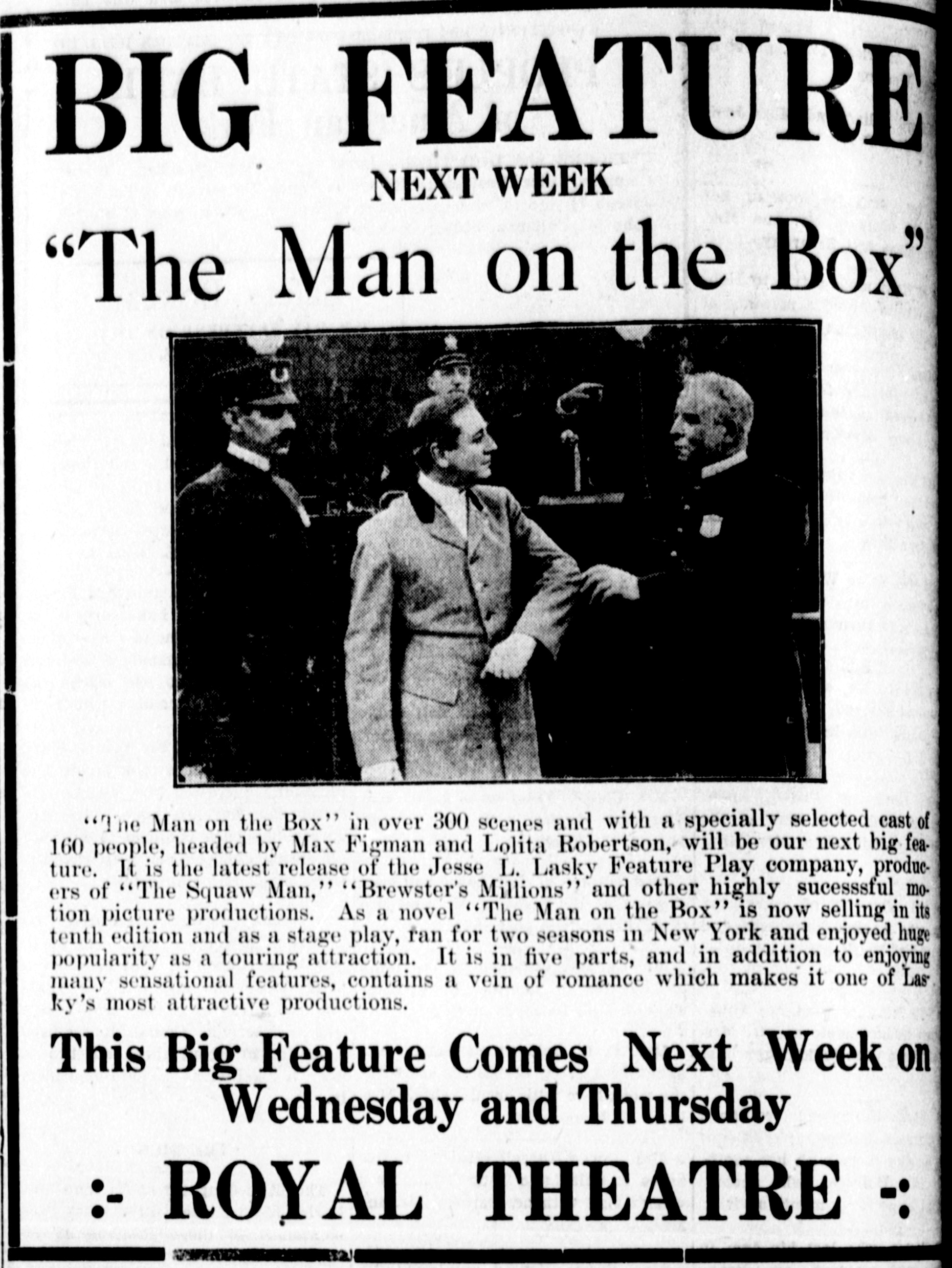 The Man on the Box is a 1914 American silent comedy-drama film directed by Oscar Apfel and co-directed by Cecil B. DeMille. This is an advert from a newspaper published for the film.